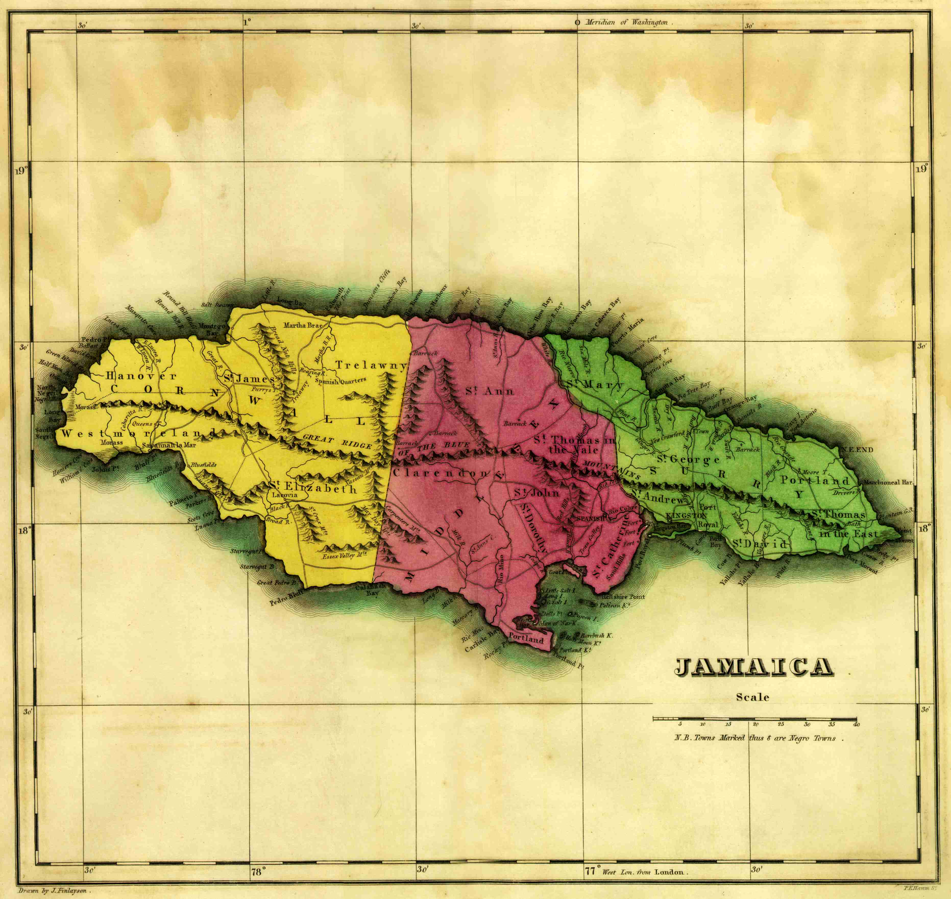 1822 map of Jamaica, with old counties